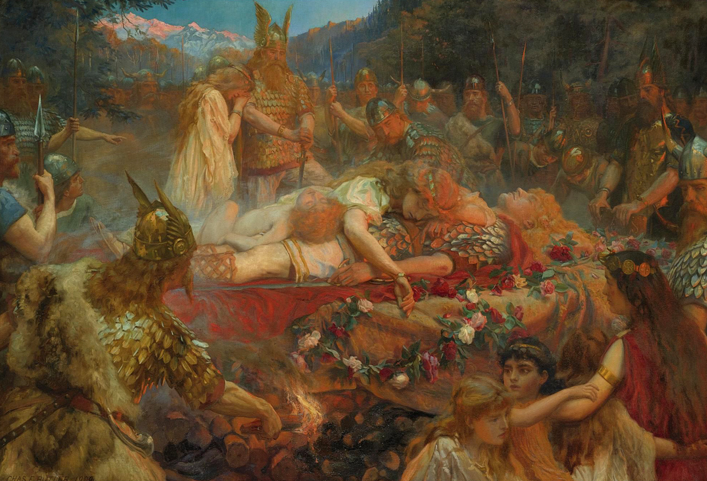 Category:Images from Norse mythology